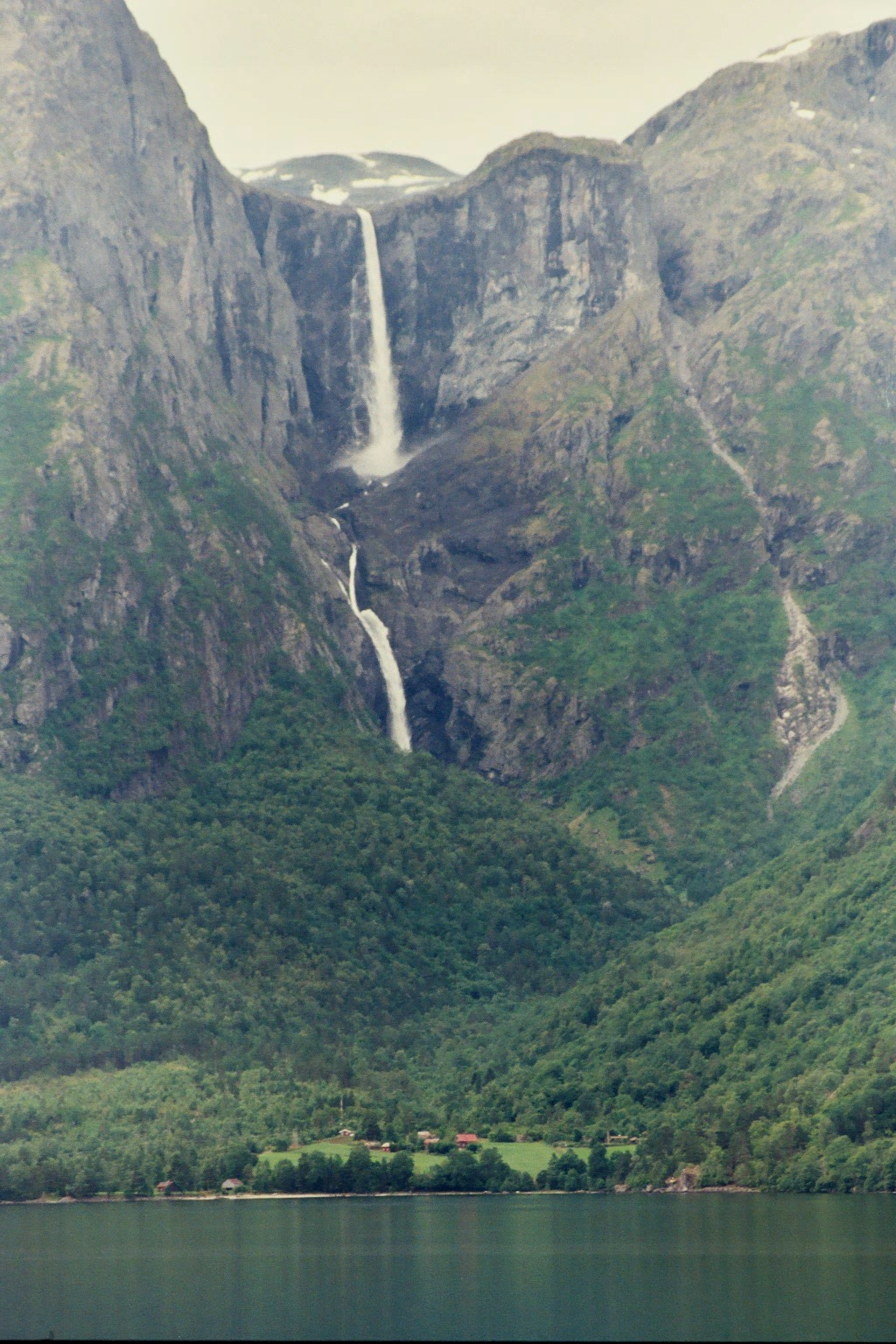 The Mardalsfossen waterfall in Romsdal, Norway. The photograph shows the Mardalsfossen waterfall in the valley Eikesdalen in the county Møre og Romsdal. The waterfall is by the south end of the lake Eikesdalsvatnet, which also can be seen in the photograph. The waterfall's total drop is 655 metres. The largest free fall is 297 meters, which is among the tallest in Norway. The photograph was taken from the road along the lake Eikesdalsvatnet by Peter John Acklam in July 2004 with a Pentax SFX-N SLR camera with an SMC Pentax A 70–210/4 zoom lens.